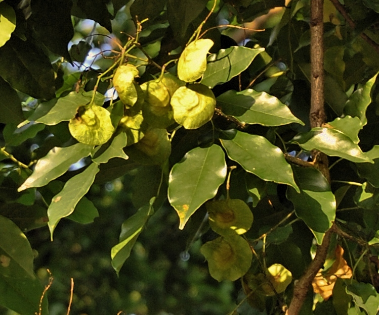 Pterocarpus indicus, leaves and fruits. From Bogor, West Java, Indonesia.